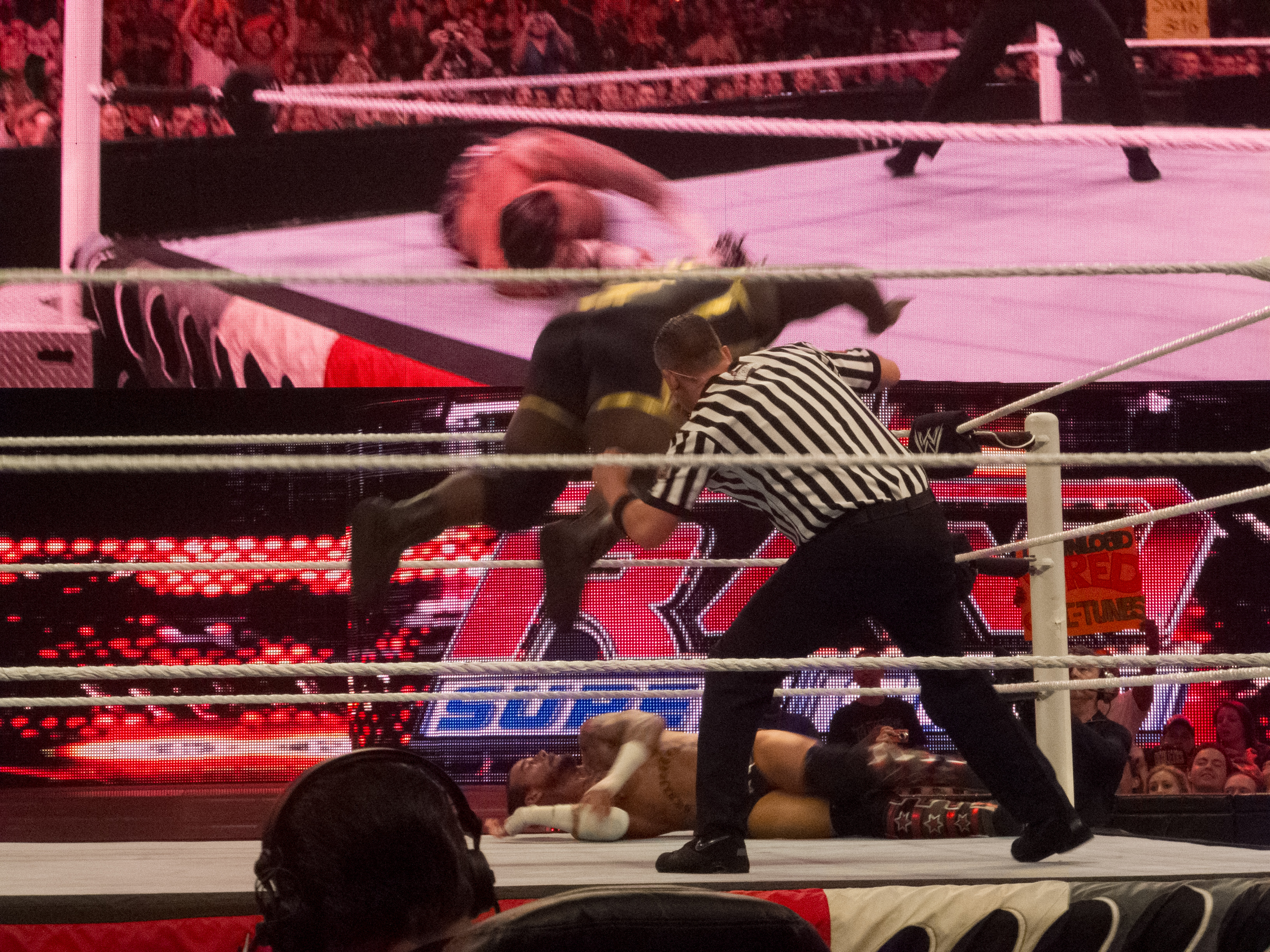 WWE Championship match